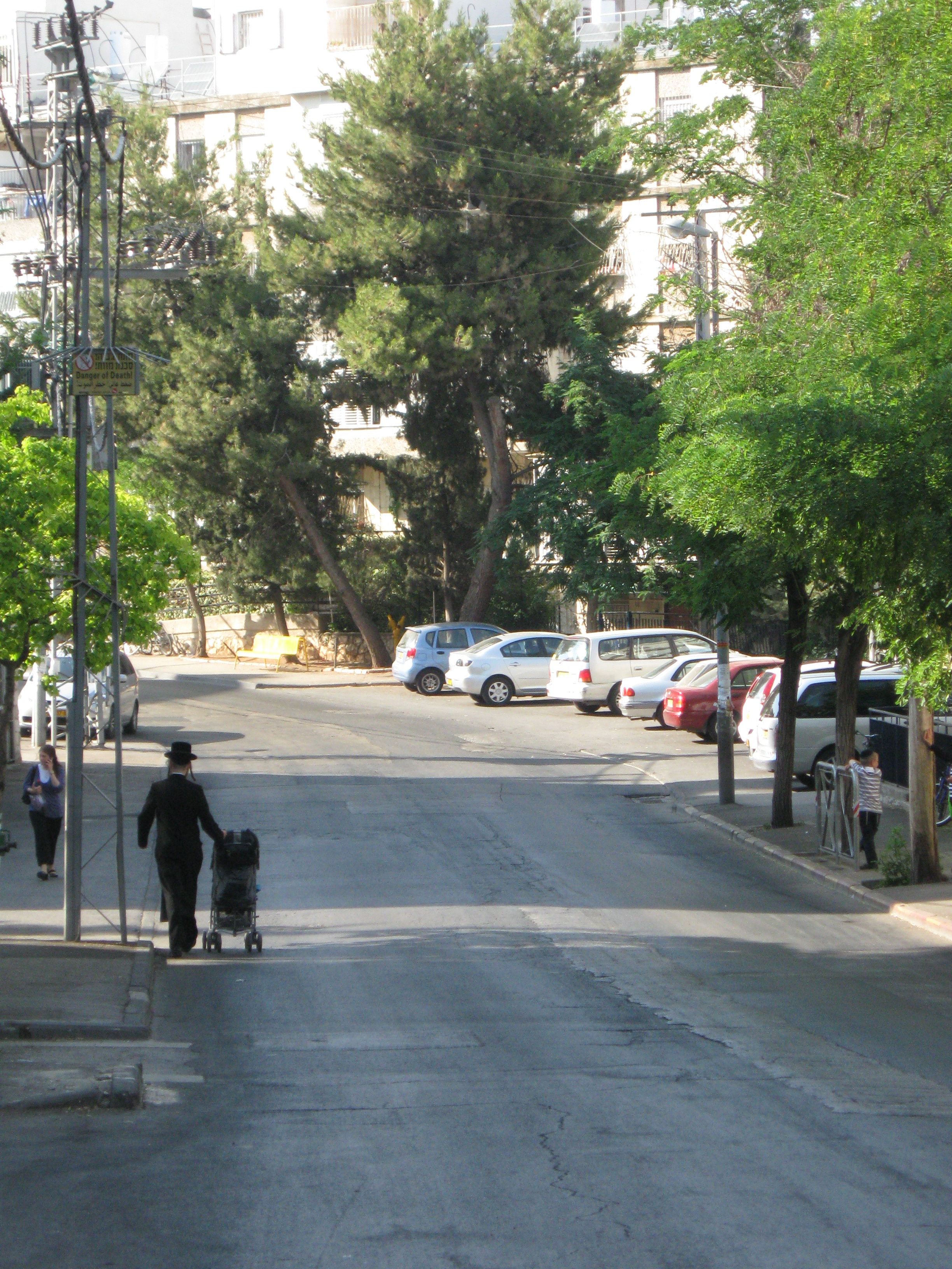 View of Panim Meirot Street, Jerusalem